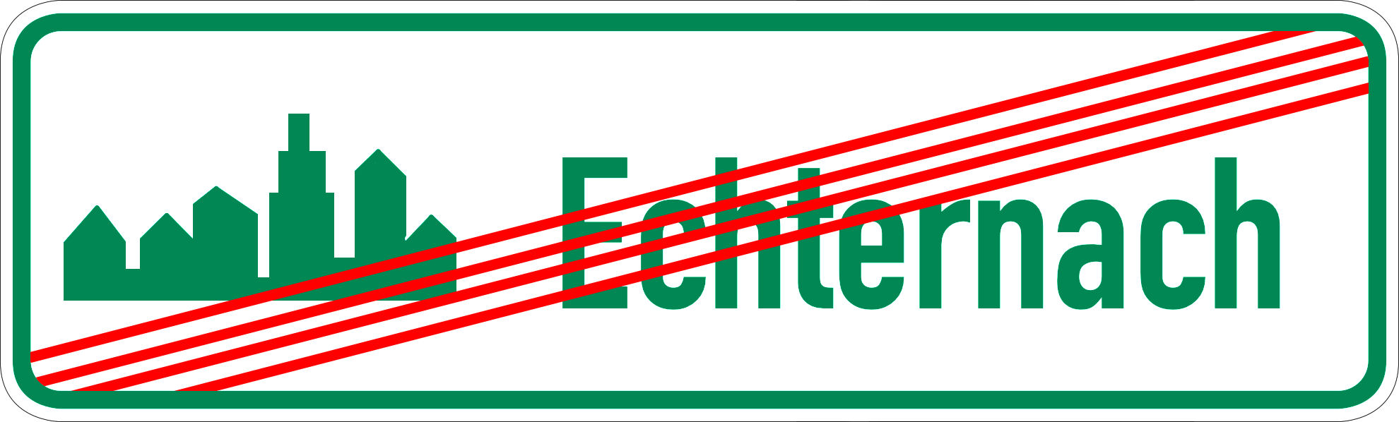 Diagram of road signs of Luxembourg